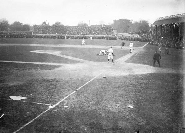 "Image of baseball players on the field during the World Series game between the National League's Chicago Cubs and the Detroit Tigers at the baseball field in Detroit, Michigan. The pitcher is catching a grounder near the first base line and the batter is running to first base. Spectators sitting in the grandstand and bleachers are visible in the background."